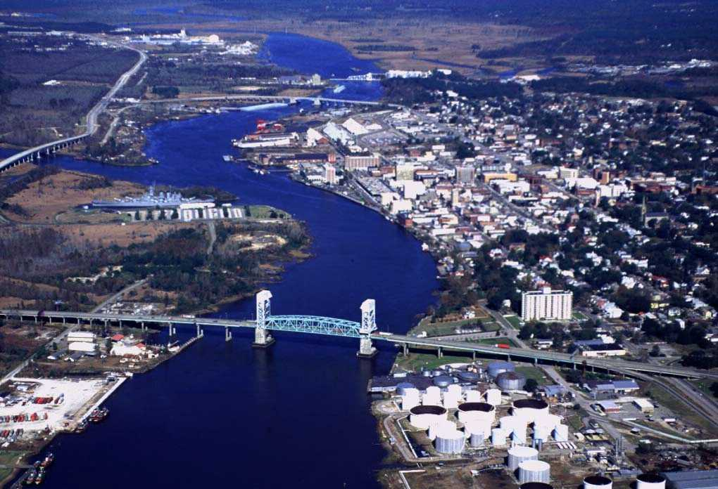 U.S. Coast Guard photograph of Wilmington, North Carolina.[1]